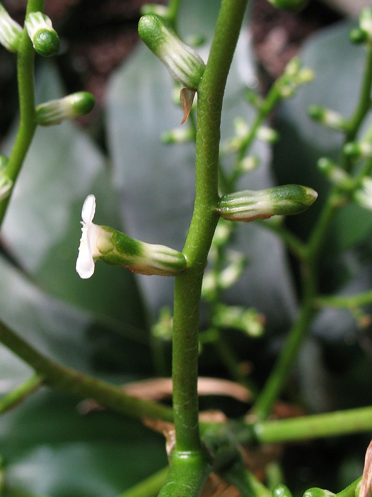 Lymania alvimii, in cultivation at the Botanical Garden of Heidelberg, Germany.